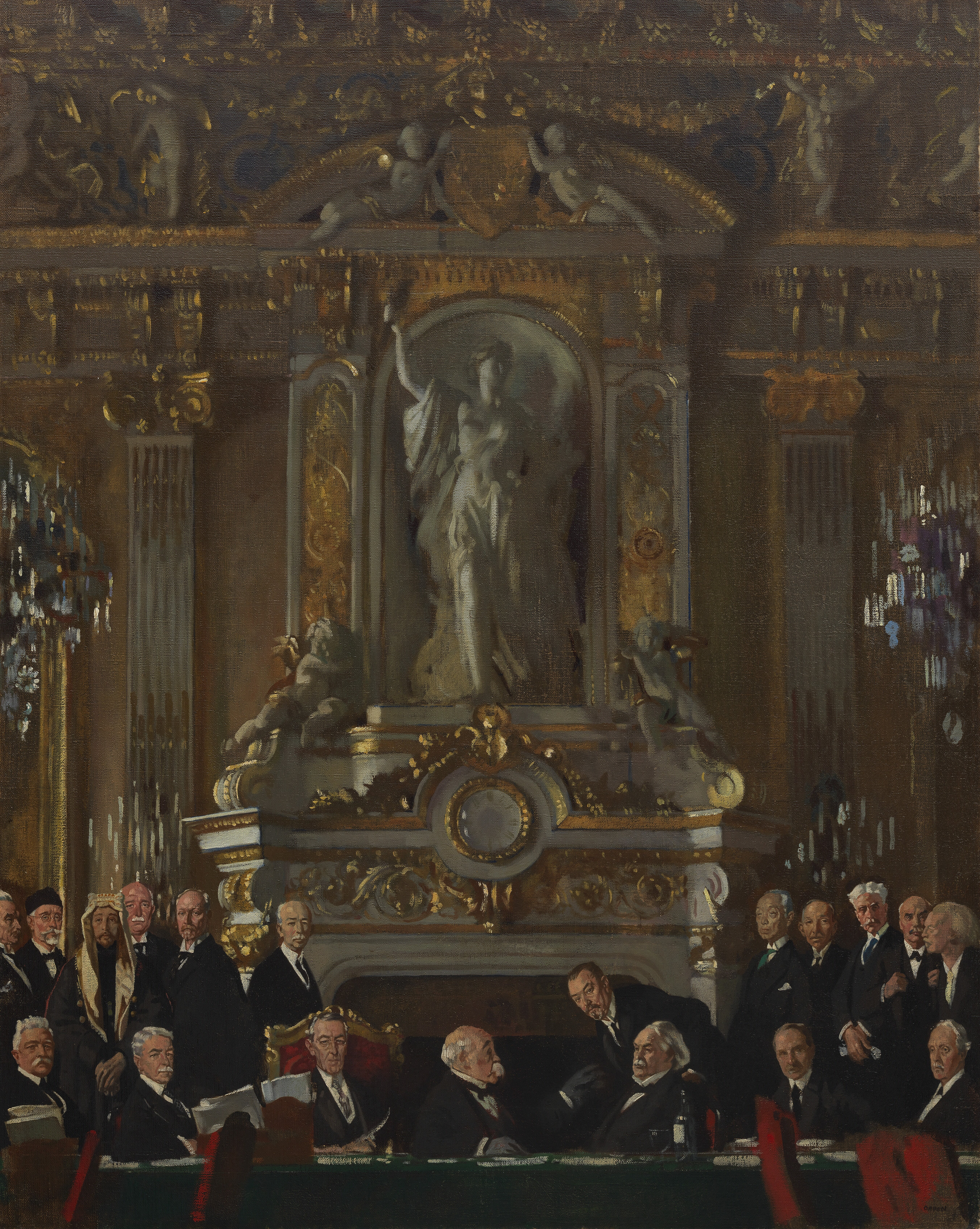 Delegates sitting and standing around a table. Behind them is a highly ornate and gilded room with chandeliers, cherubs, and a statue of Victory above the fireplace.